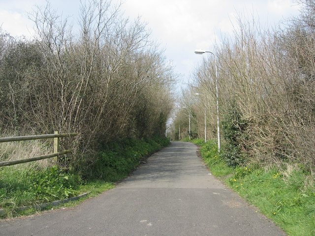 Pencoedtre Lane, Barry. Pencoedtre Lane which leads of Port Road is now a no through road.